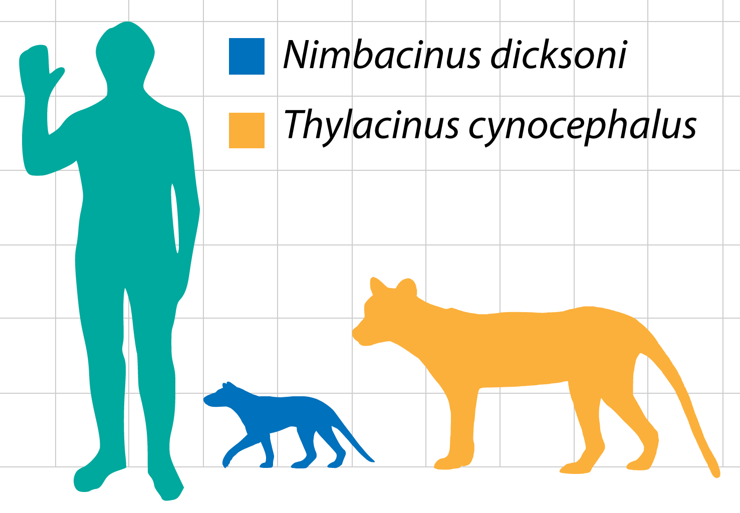 Size comparison between Nimbacinus dicksoni and Thylacinus cynocephalus, with a human for scale. T. cynocephalus silhouette was created based on a photo from the Smithsonian Institution archives.